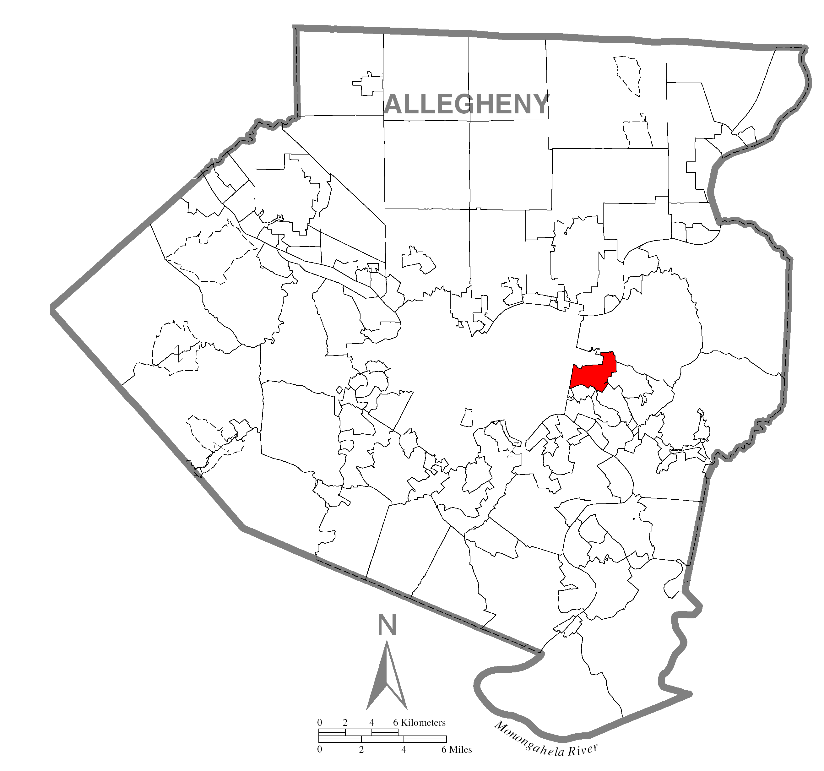 A map of Allegheny County showing Wilkinsburg, Pennsylvania (alternate) highlighted on the map.